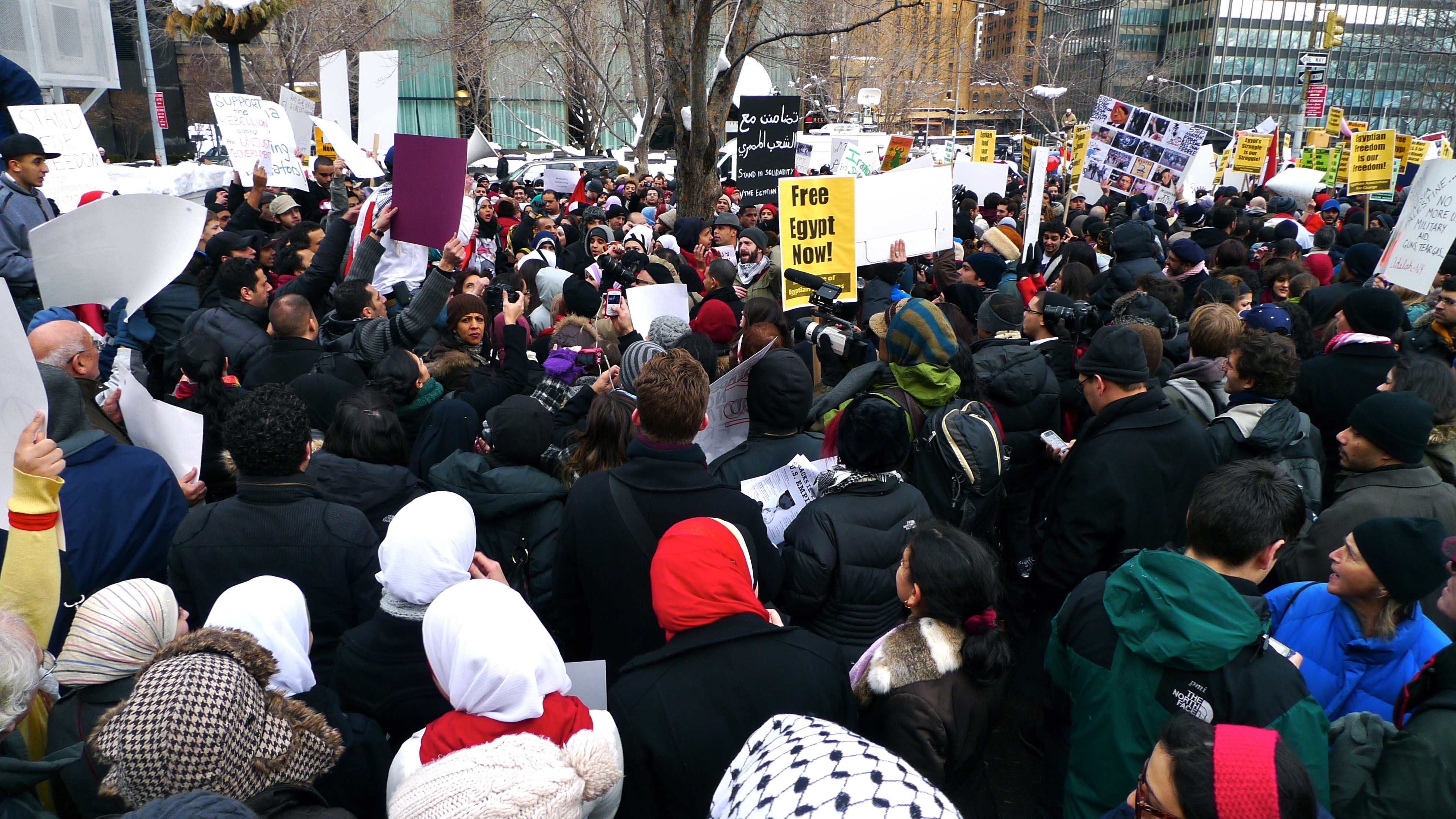 NYC Rally for Egyptian Democracy Protestors, 29 January 2011.